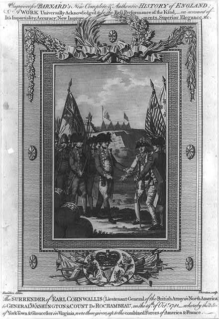 British general Charles O'Hara (1740-1802) surrenders the sword of Charles Cornwallis to George Washington and Count de Rochambeau at Yorktown on 19th October 1791. Library of Congress description: "Print shows General Charles O'Hara, representing General Cornwallis, handing sword to George comte de Rochambeau who is standing with George Washington."